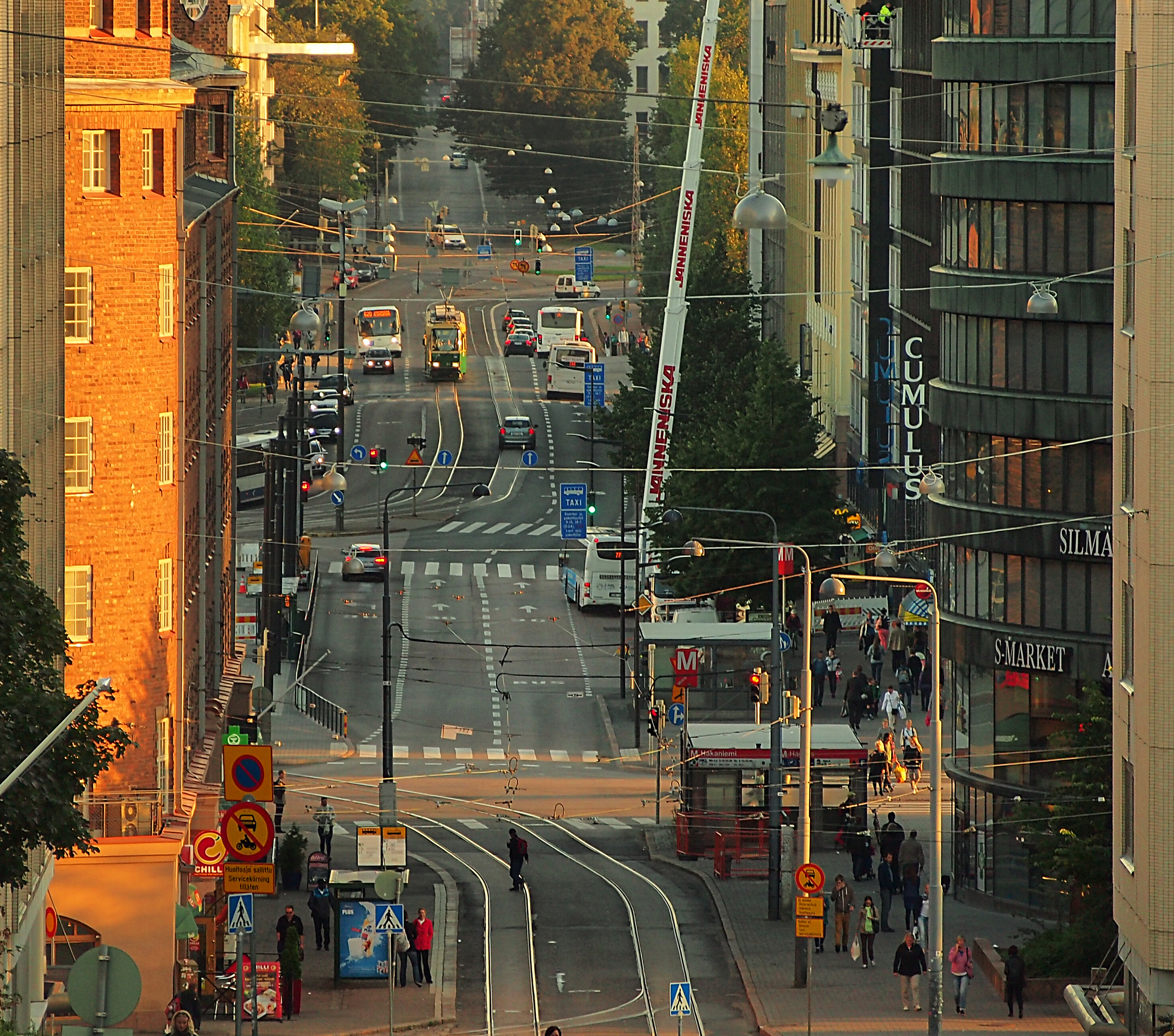 The street Siltasaarenkatu in Hakaniemi, Helsinki, Finland